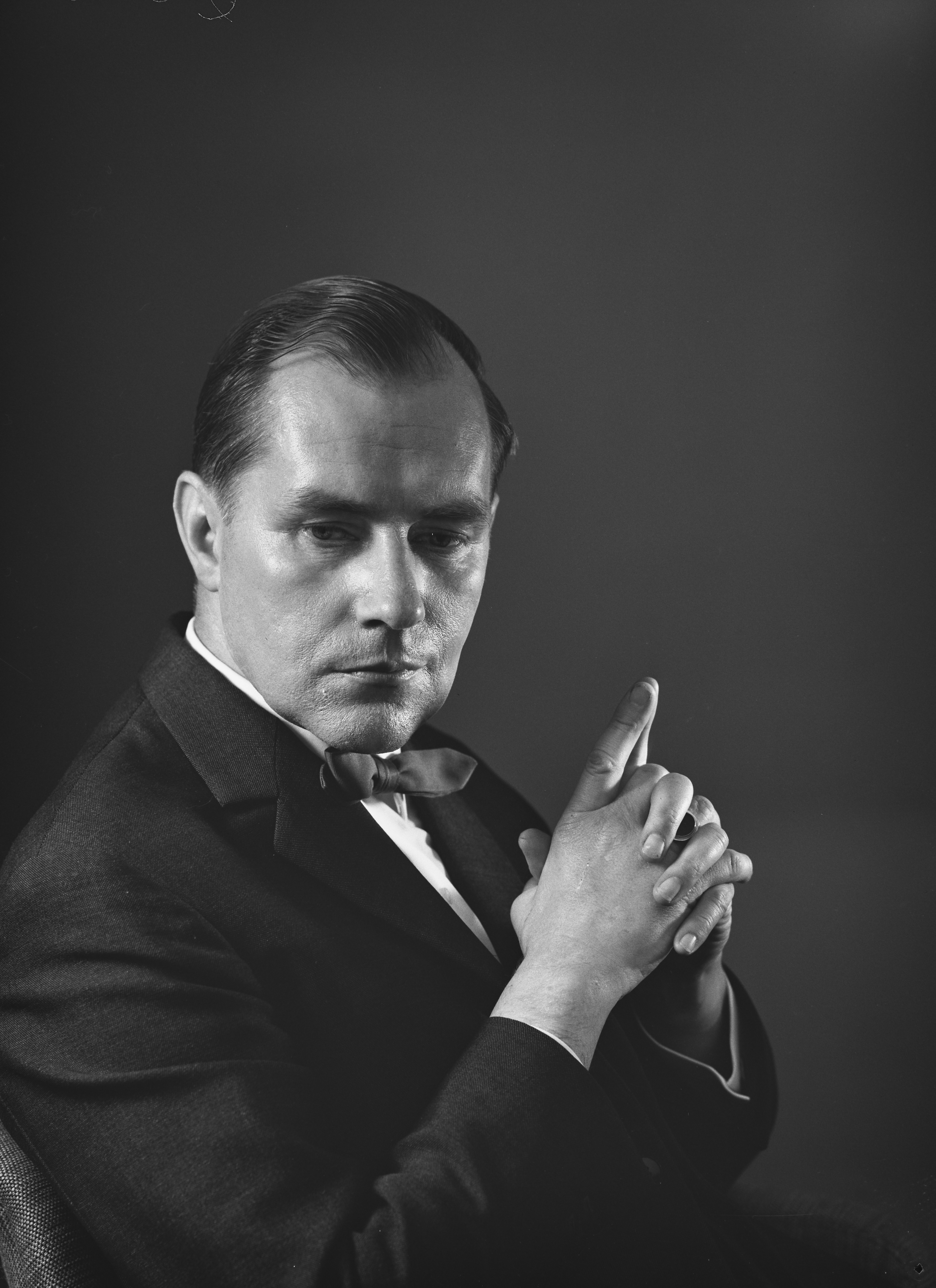 Photograph of the Finnish composer and writer Einari Marvia (1915–1997).